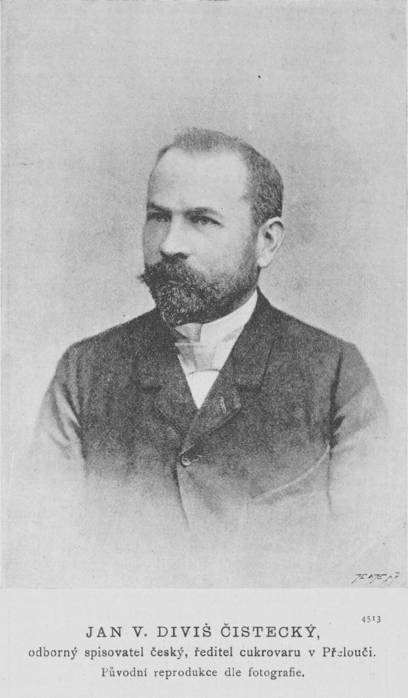 Portrait of Jan Vincenc Diviš Čistecký (1848-1923), Czech manager of a sugar factory and author of professional literature.